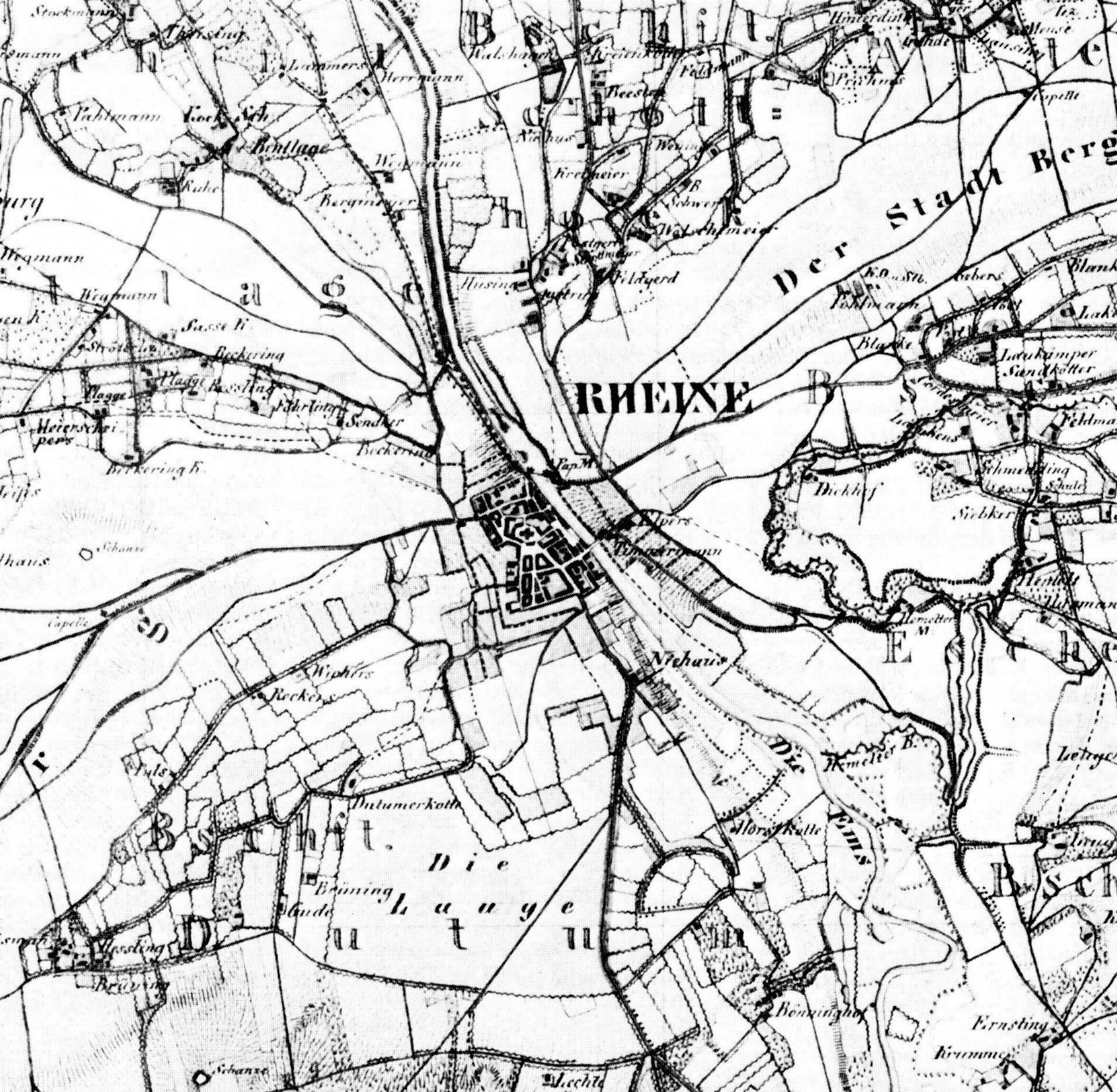 Map, City of Rheine, Germany, Urmesstischblatt published in 1842, metric Scale 1:25000